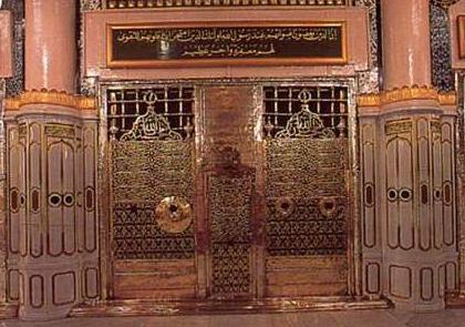 Tombstone of Umar, the third caliph.